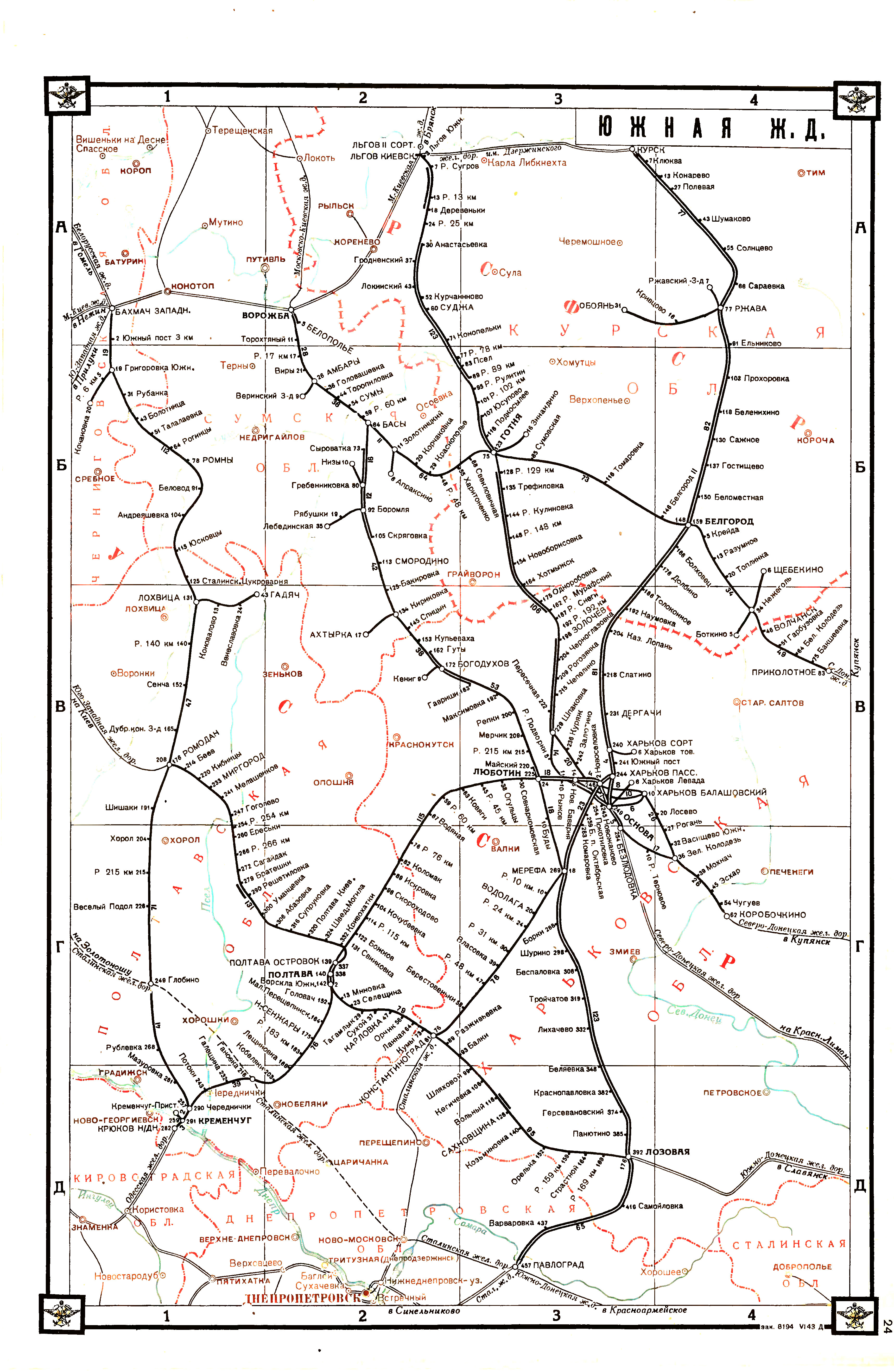 Map of Southern (Ukrainian SSR and Belgorod\Kursk Oblast) Railway. 1943.